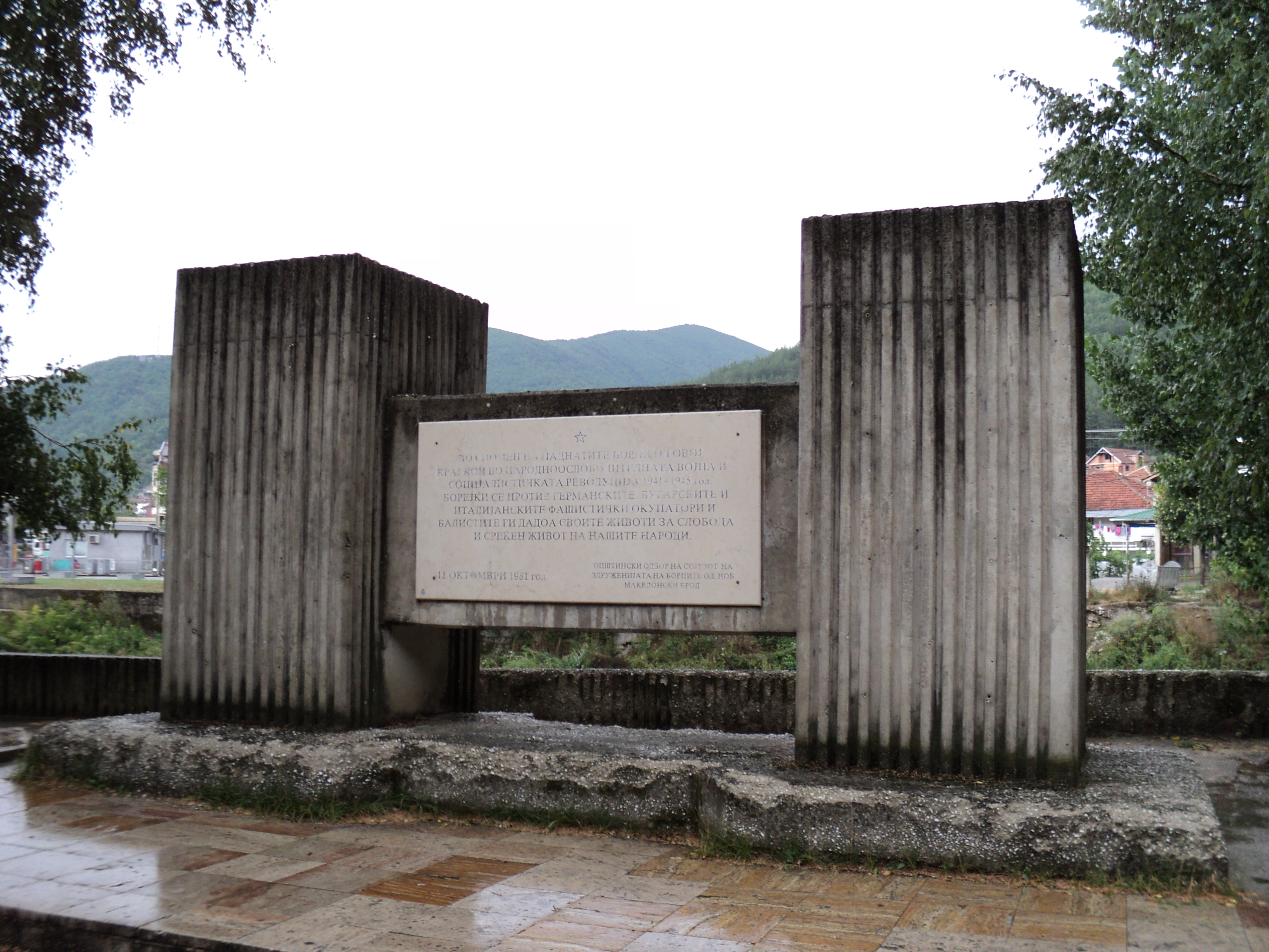 Monument of the fallen fighters of the People's liberation war 1941-45 in Makedonski Brod.